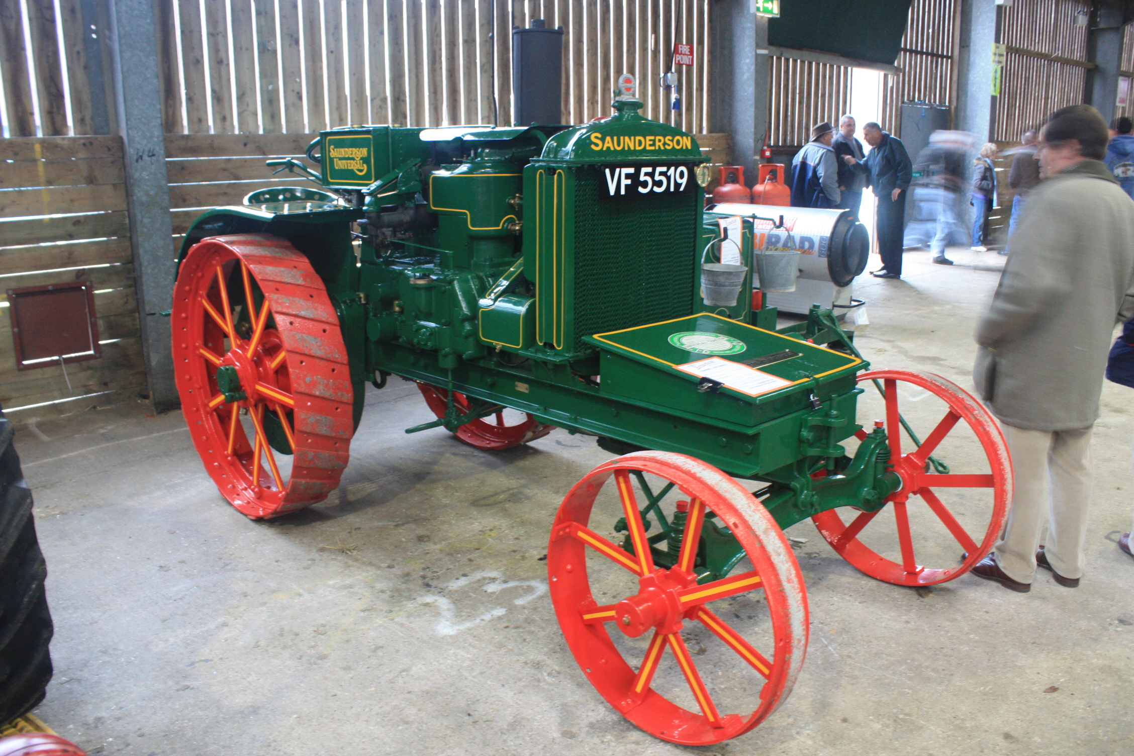 A Saunderson Universal Model G tractor